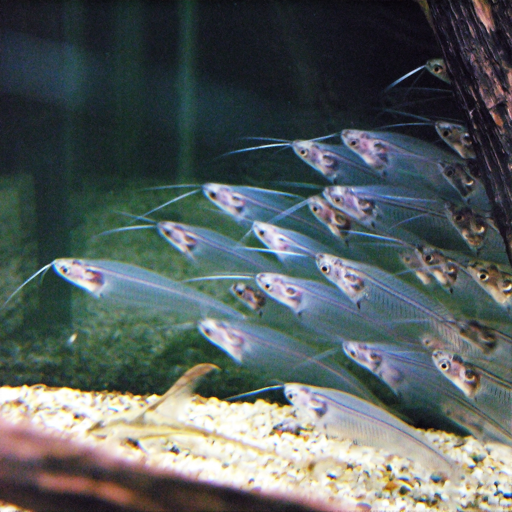 トランスルーセントグラスキャットフィッシュ Kryptopterus bicirrhis Kryptopterus vitreolus. Location 姫路水族館 Himeji City Aquarium, Japan Copyright OpenCage